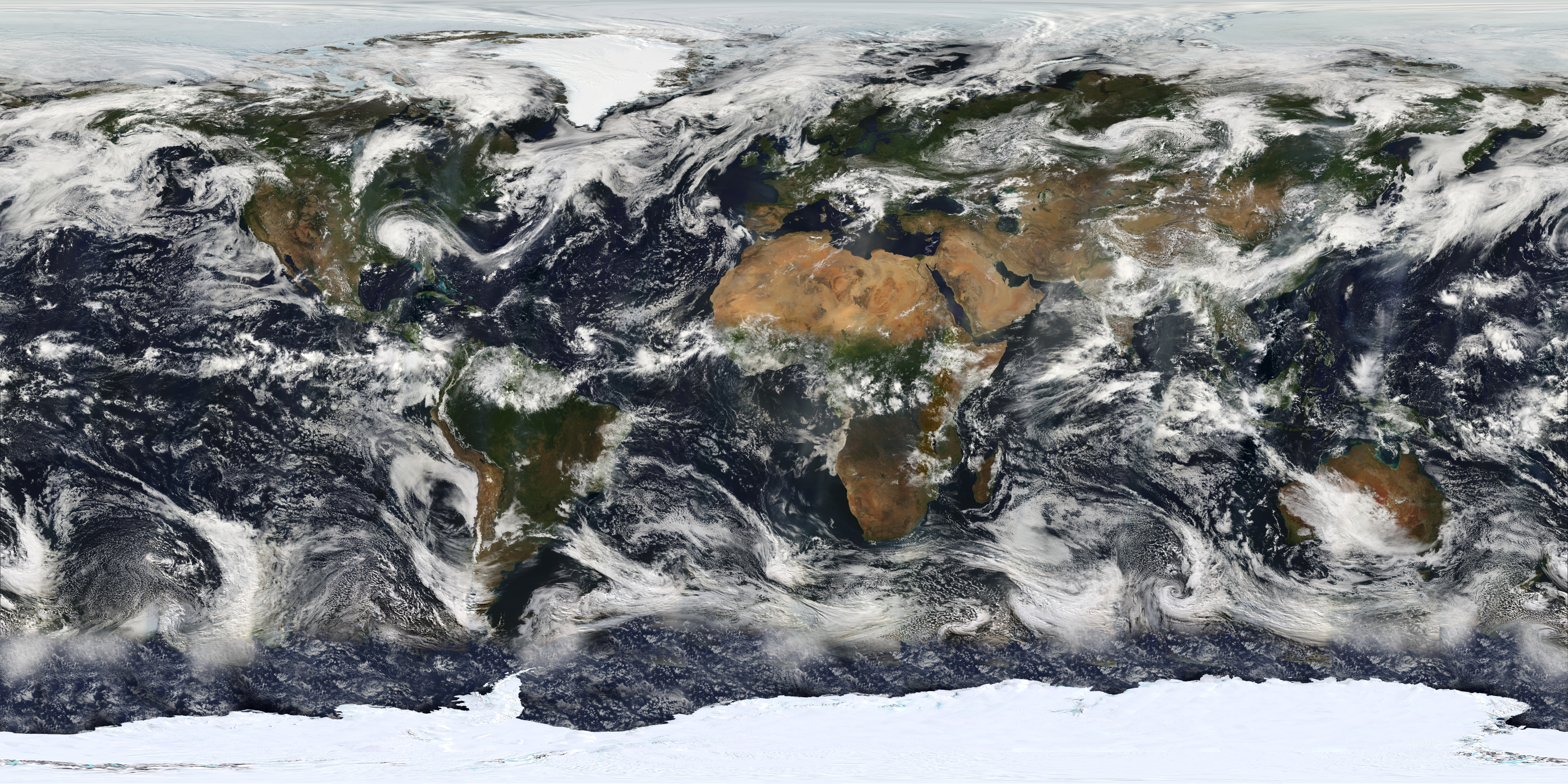 This image is based largely on observations from the Moderate Resolution Imaging Spectroradiometer (MODIS) - a sensor aboard the Terra satellite - on July 11, 2005. Small gaps in MODIS' coverage between overpasses, as well as Antarctica (which is in polar darkness in July), have been filled in using GOES weather satellites and the latest version of the NASA Blue Marble. Hurricane Dennis can be seen moving inland over the Gulf Coast.